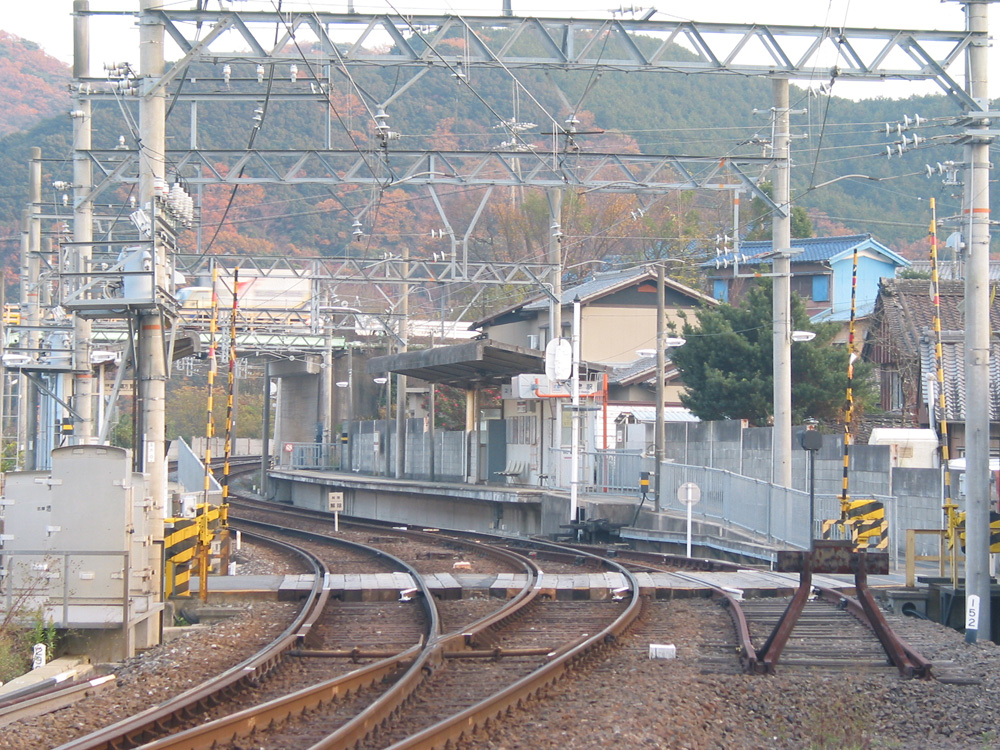 Funatsu Station Shima Line, Kintetsu Corporation. I took this image at Funatsu Toba Mie, Japan.